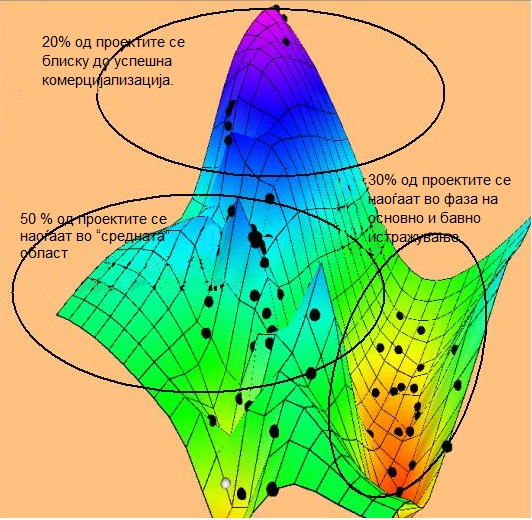 The SWOT-landscape systematically deploys the relationships between overall objective and underlying SWOT-factors and provides an interactive, query-able 3D landscape.